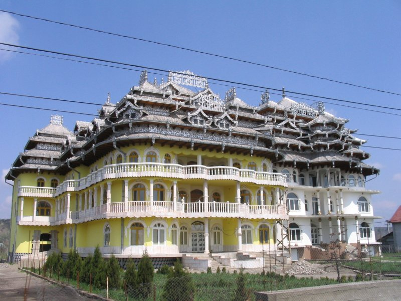 Home of a wealthy Roma (Gipsy) family in Turda, Transylvania, Romania